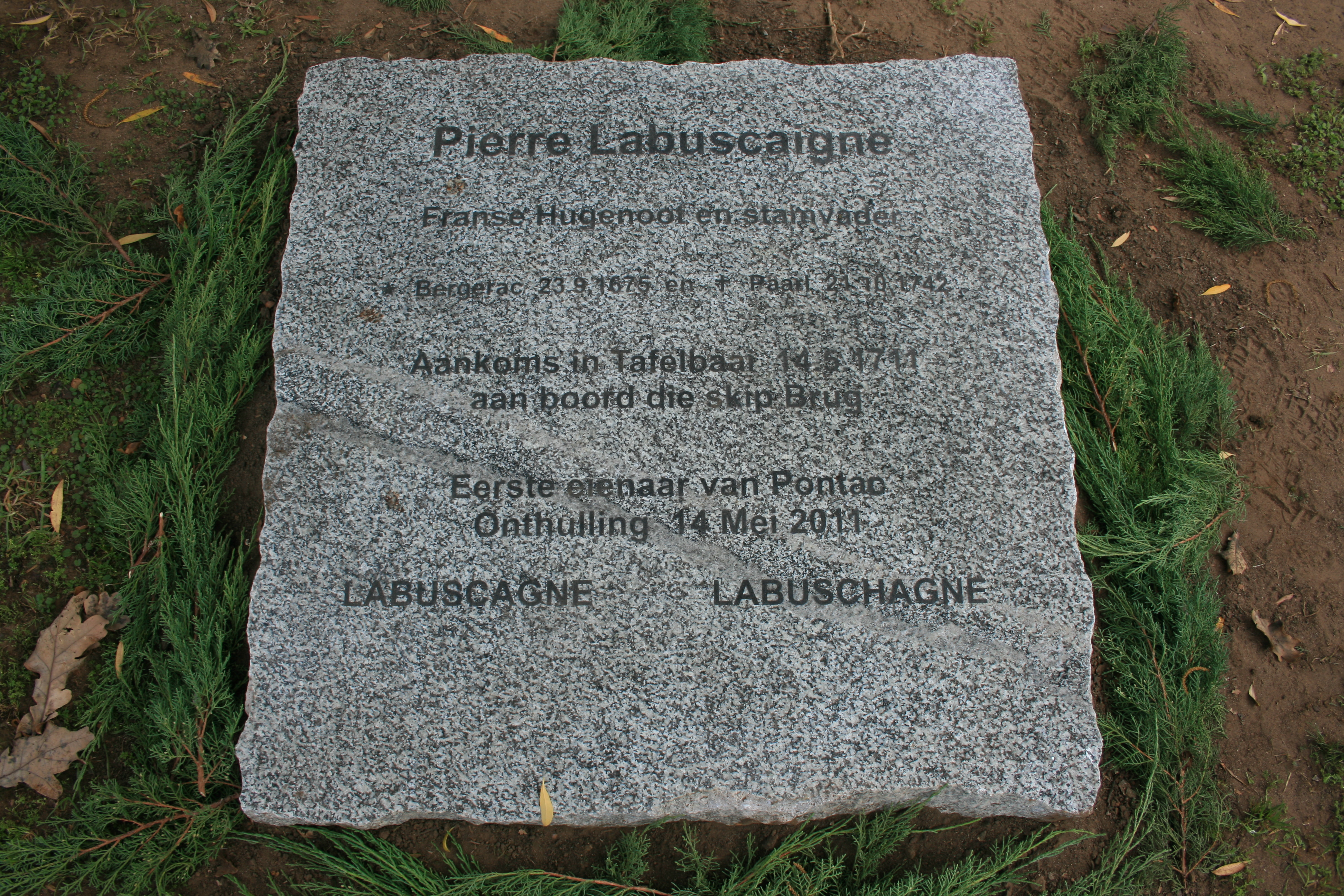 Labuschagne memorial stone which commemorates the life of founding progenitor, Pierre Labuscaigne.